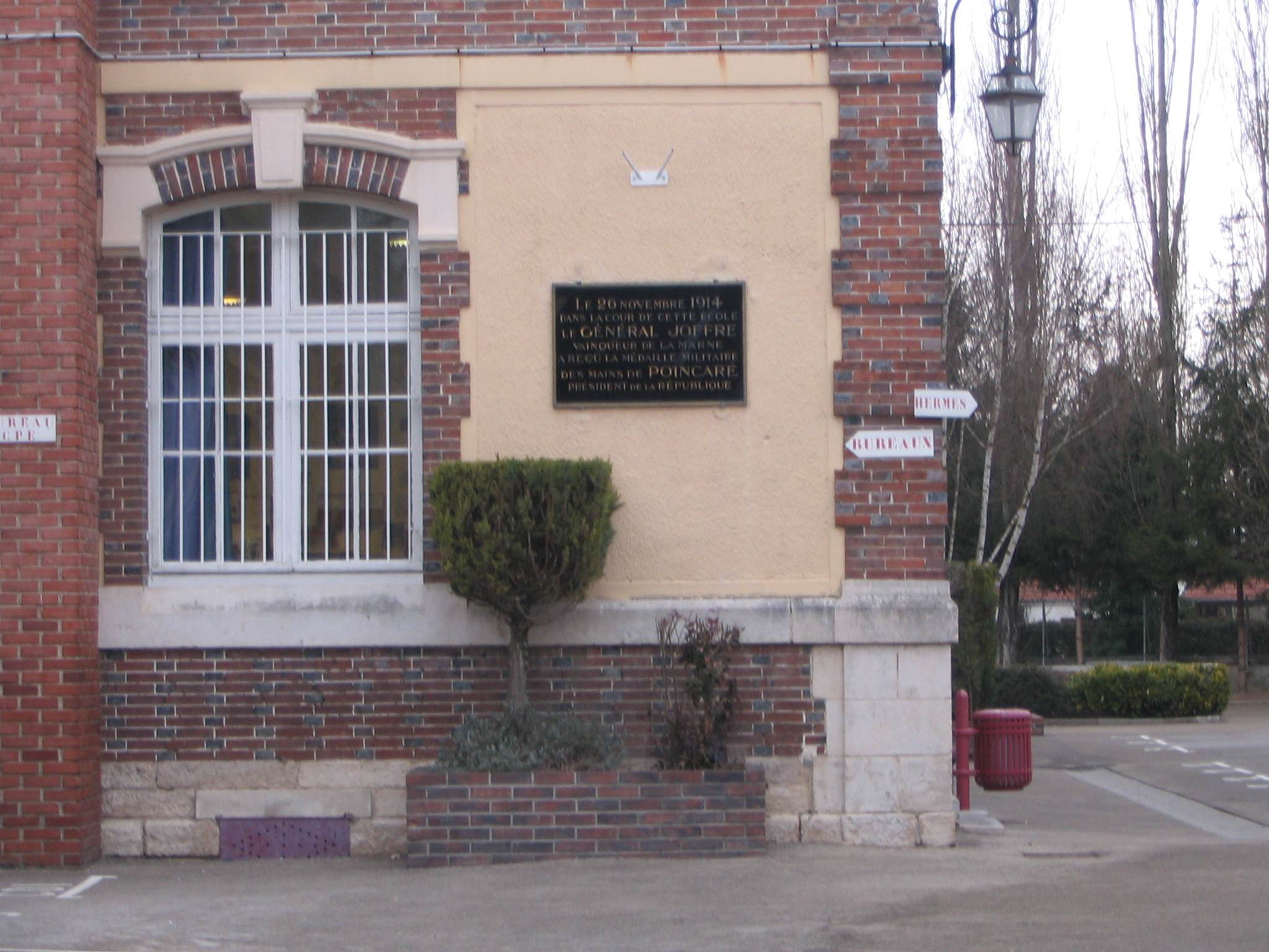 Plaque commemorating Joffre's medalling, in Romilly-sur-Seine, Aube, France. "On November 26th, 1914, in this school's courtyard, General Joffre, winner of the Marne battle, received the military medal from Poincaré, President of the Republic".